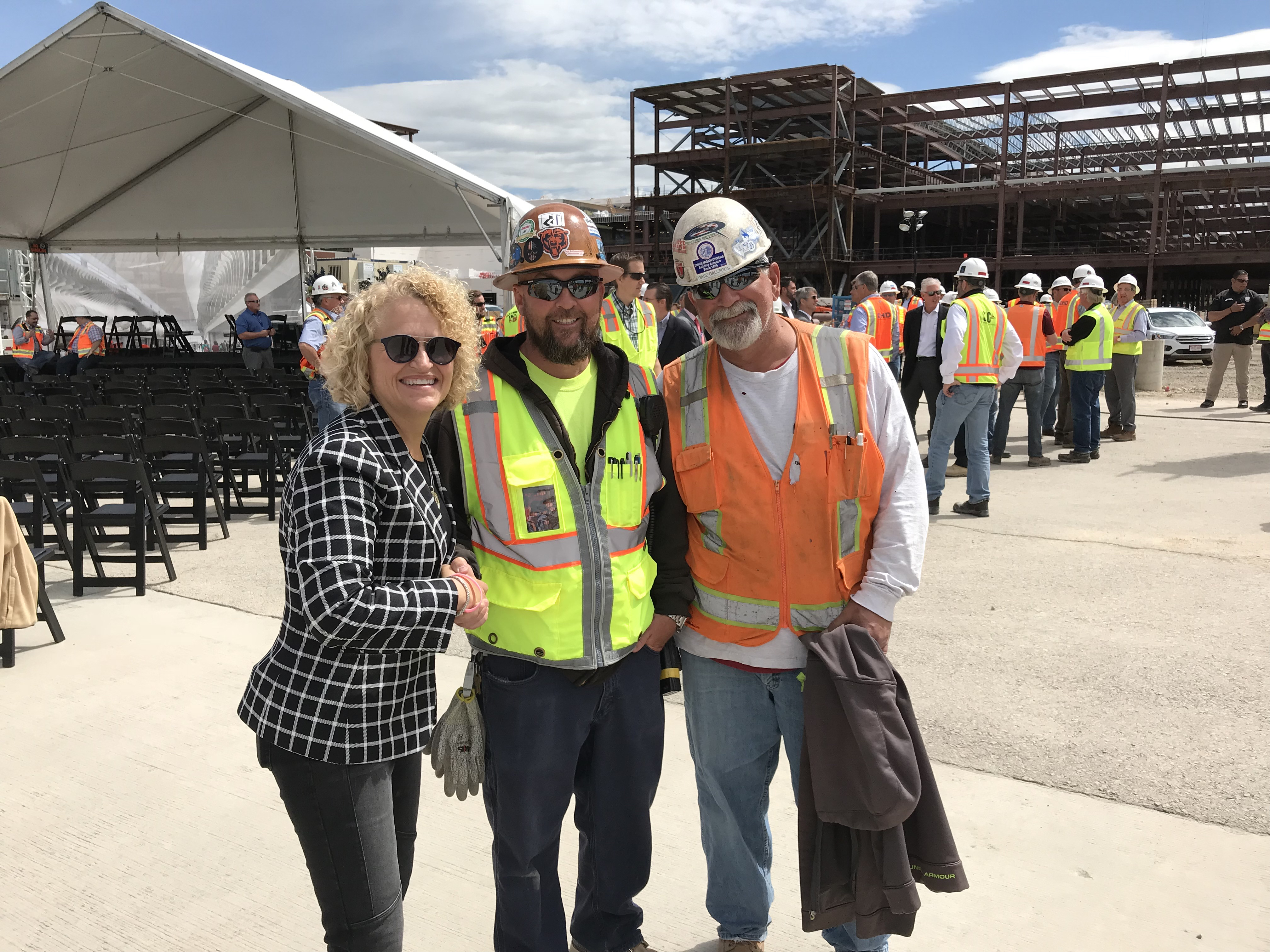 Jackie Biskupski at new SLC airport